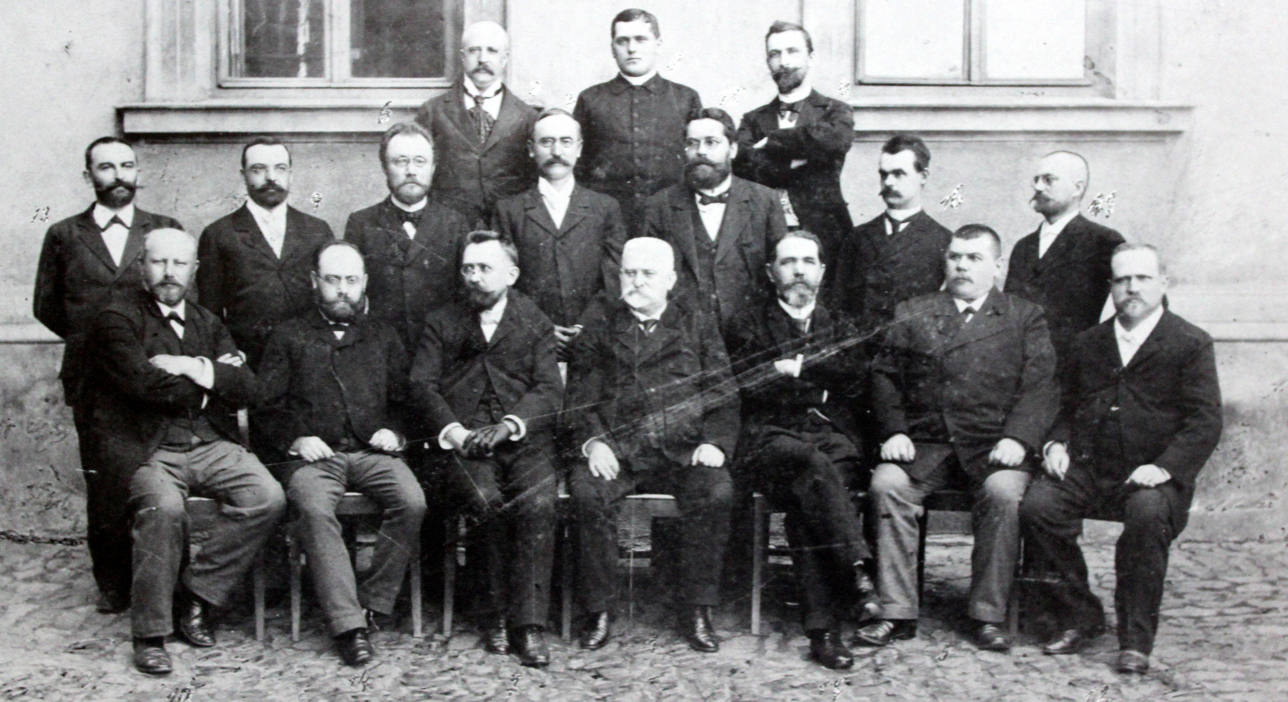 Teachers of Gymnázium Třebíč, probably in year 1897